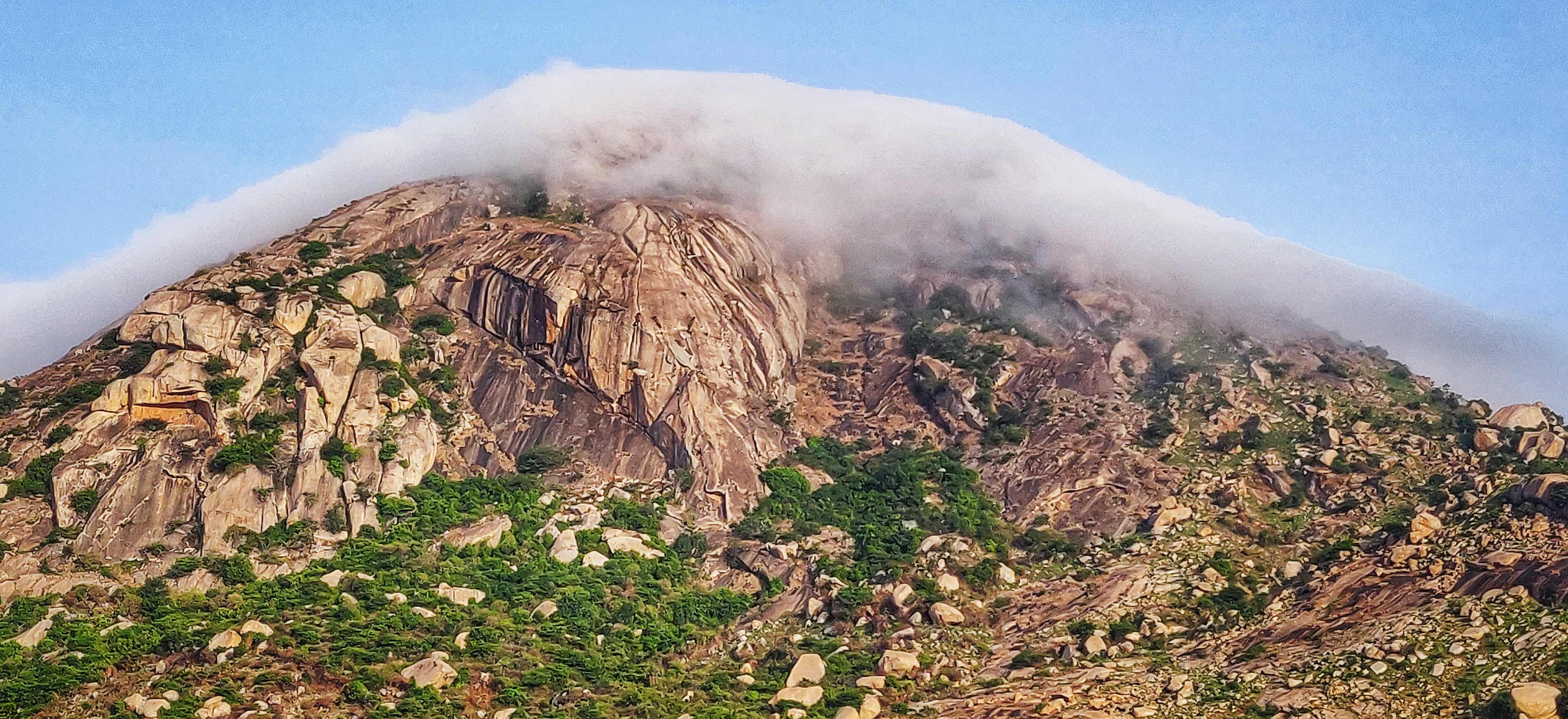 Fog/cloud over Skandagiri hills on an extremely windy morning, view from Muddenahalli